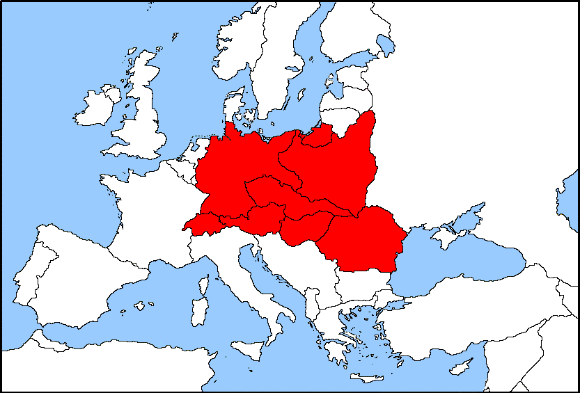 Central Europe according to Géographie universelle (1927), (Paul Vidal de la Blache and Lucien Gallois). Author: Emmanuel de Martonne. See here, here and here.